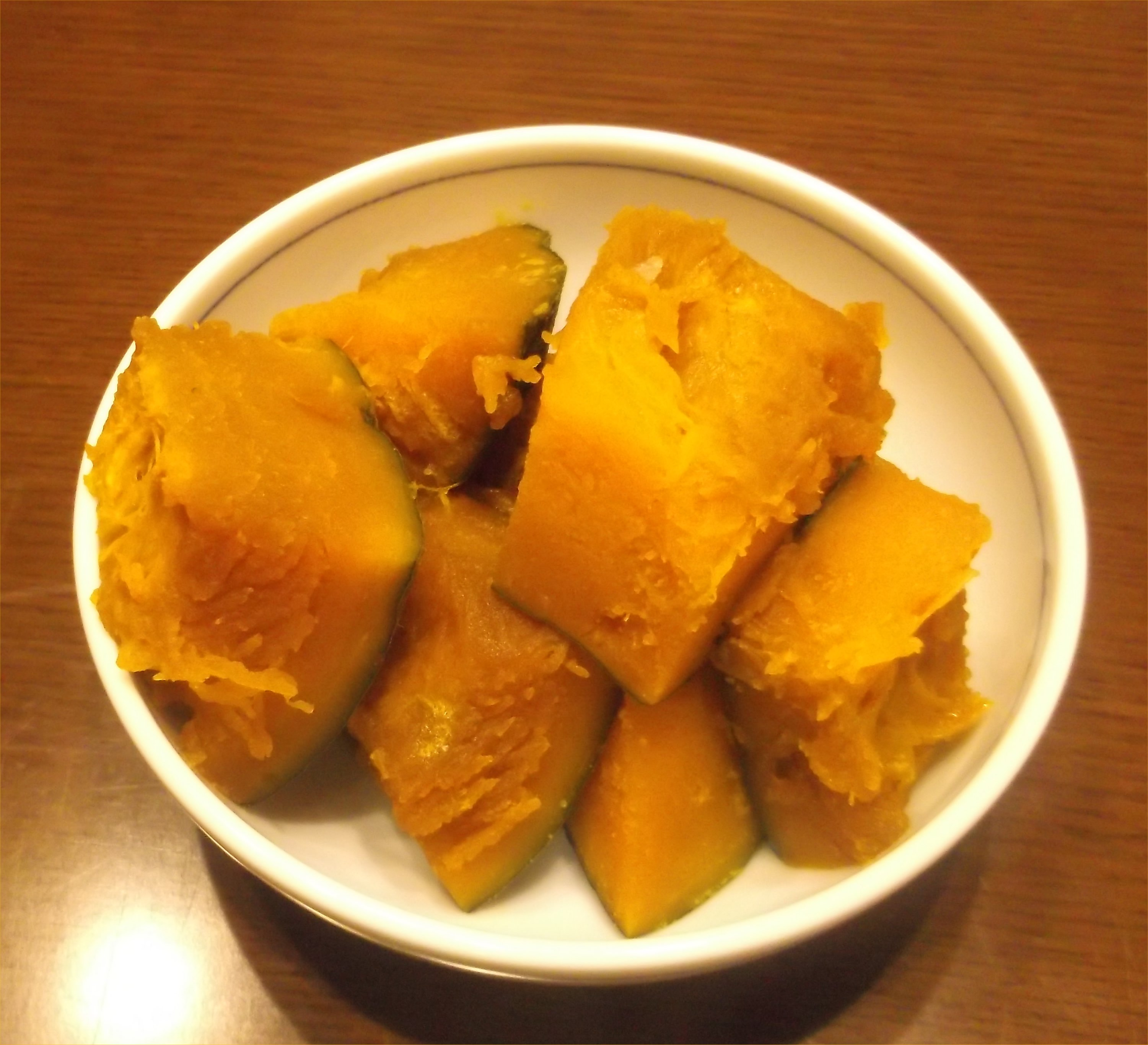 A photo of nimono of Japanese pumpkin(Kabocha)